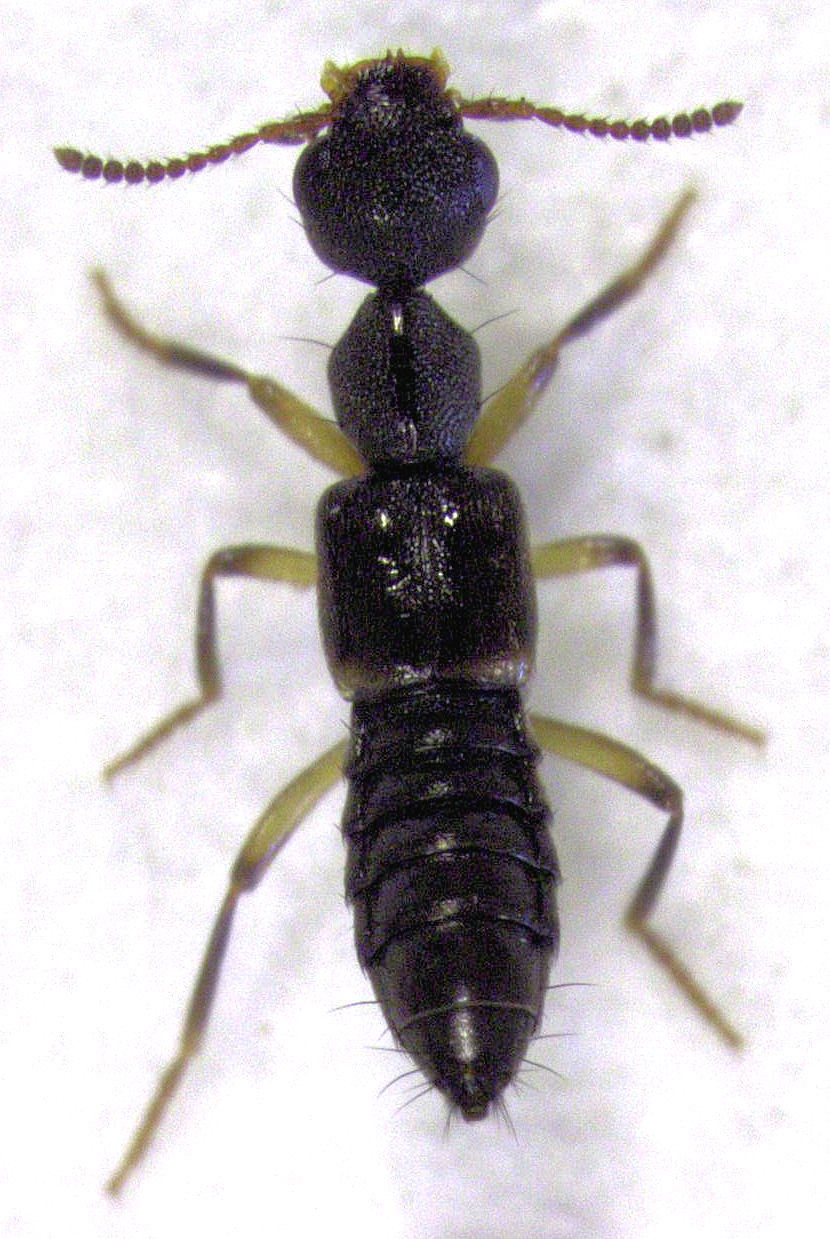 Rugilus orbiculatus (Paykull, 1789); NEW ZEALAND AK, suburb of Saint Johns, University of Auckland Tamaki Campus, garden waste dump area, 5 May 2015, S.E. Thorpe.